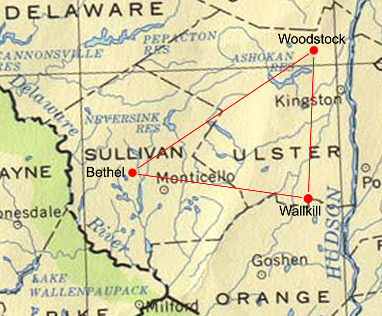 Woostock Festival: The planned location was Wallkill, the actual Bethel